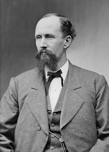 Ebenezer Byron Finley (1833 - 1916), a U.S. Representative from Ohio